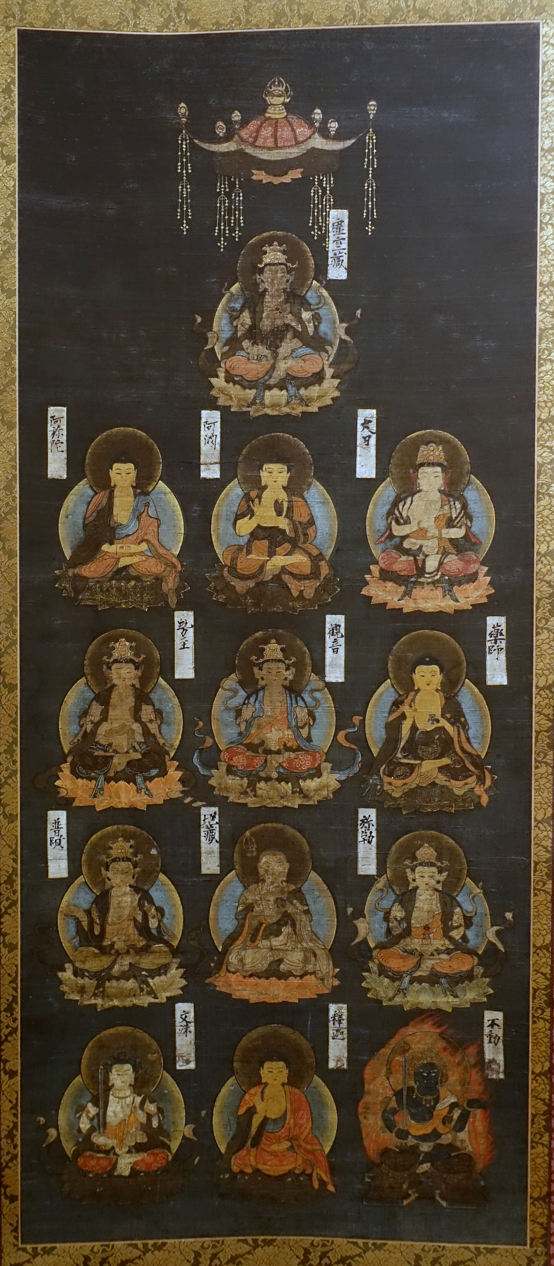 Exhibit in the Jordan Schnitzer Museum of Art, University of Oregon - Eugene, Oregon, USA.